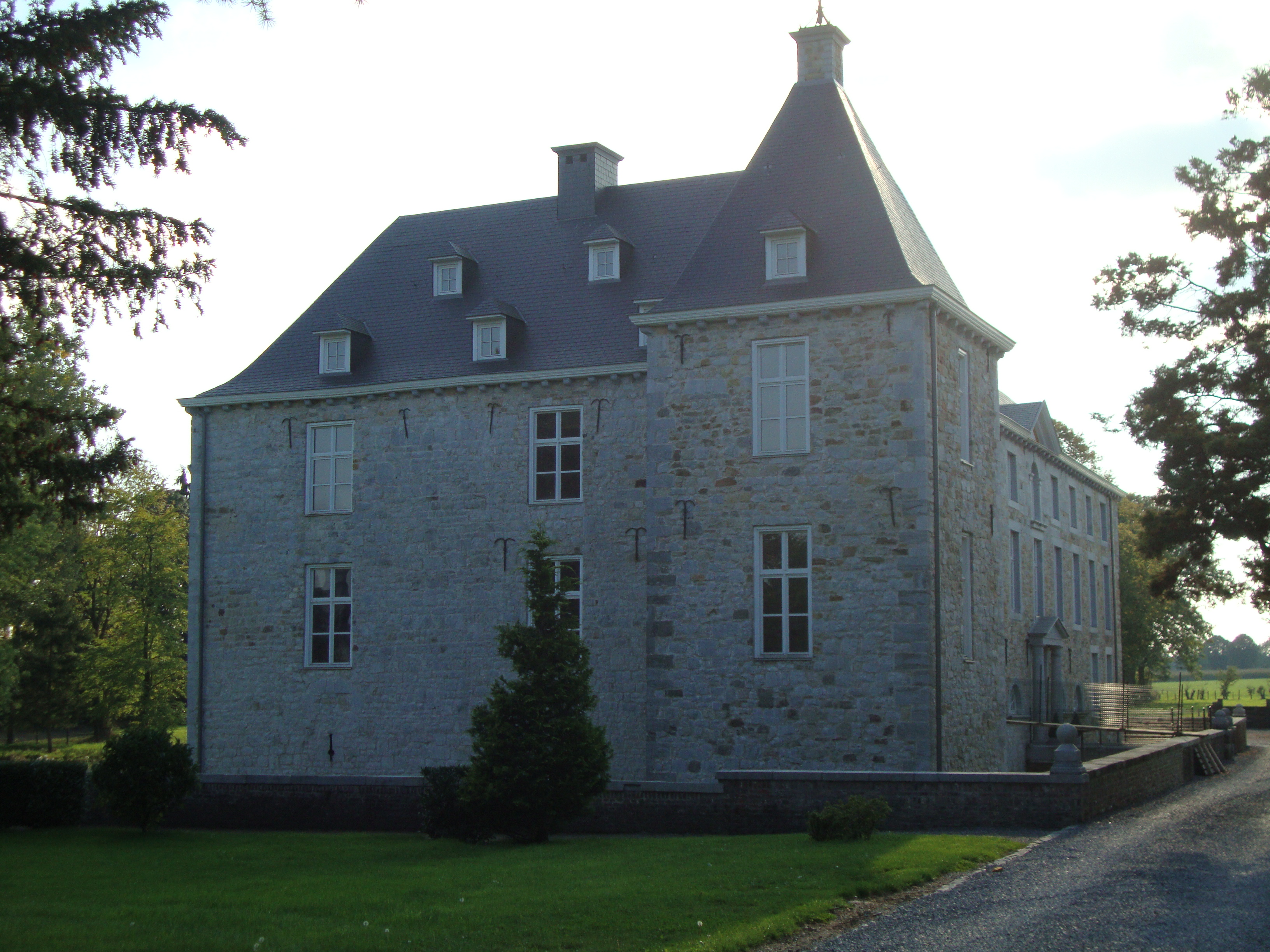 Ruyff castle to Henry Kapelle (Welkenraedt). The entrance building and the west wing dates from the early 19th century, but the beautiful East Wing is older and dates from 1716. Some parts of the 14th century.